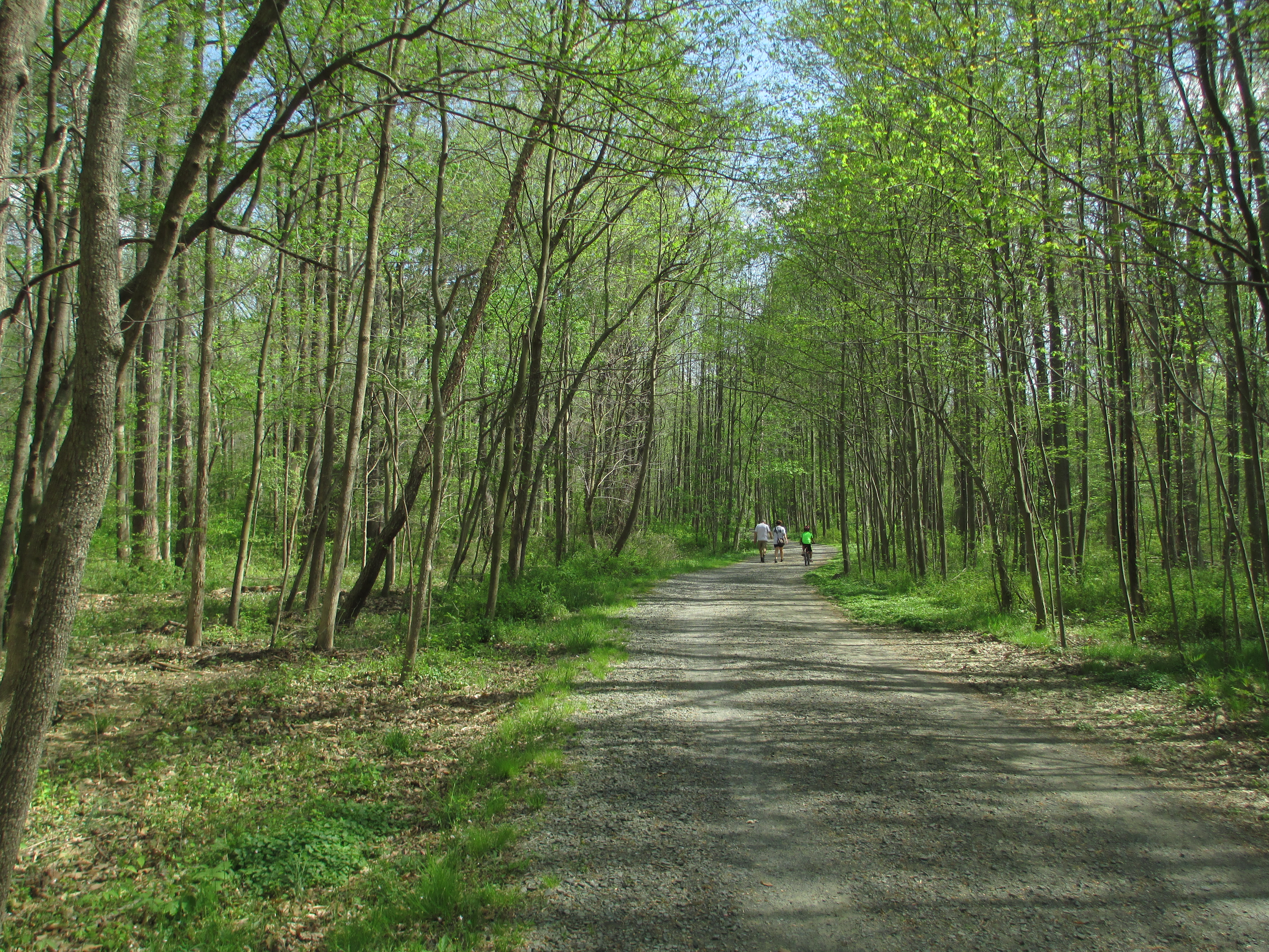 The Accontink Trail in Eakin Community Park, April 2017.